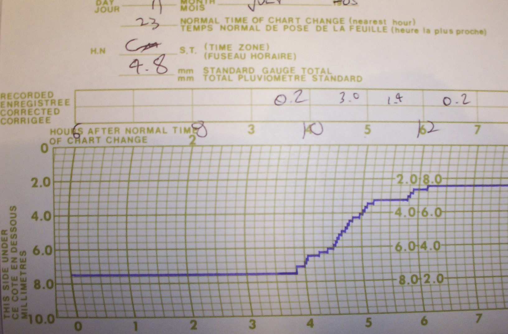 Close up of a chart used with a tipping bucket rain gauge. Each vertical line is 10 minutes and each horizontal line is 0.4 mm. Each upward step of the ink line is 0.2 mm.